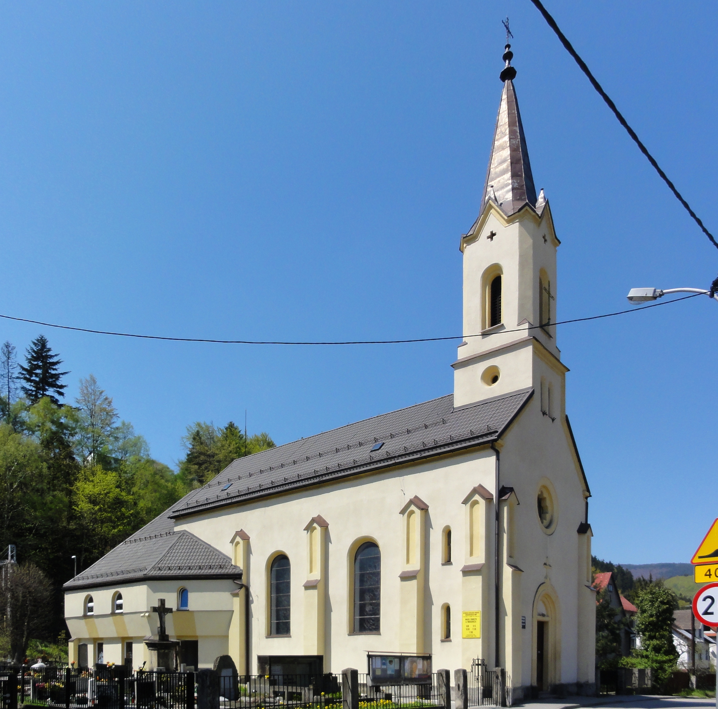 Church of the Assumption of Saint Mary in Wisła